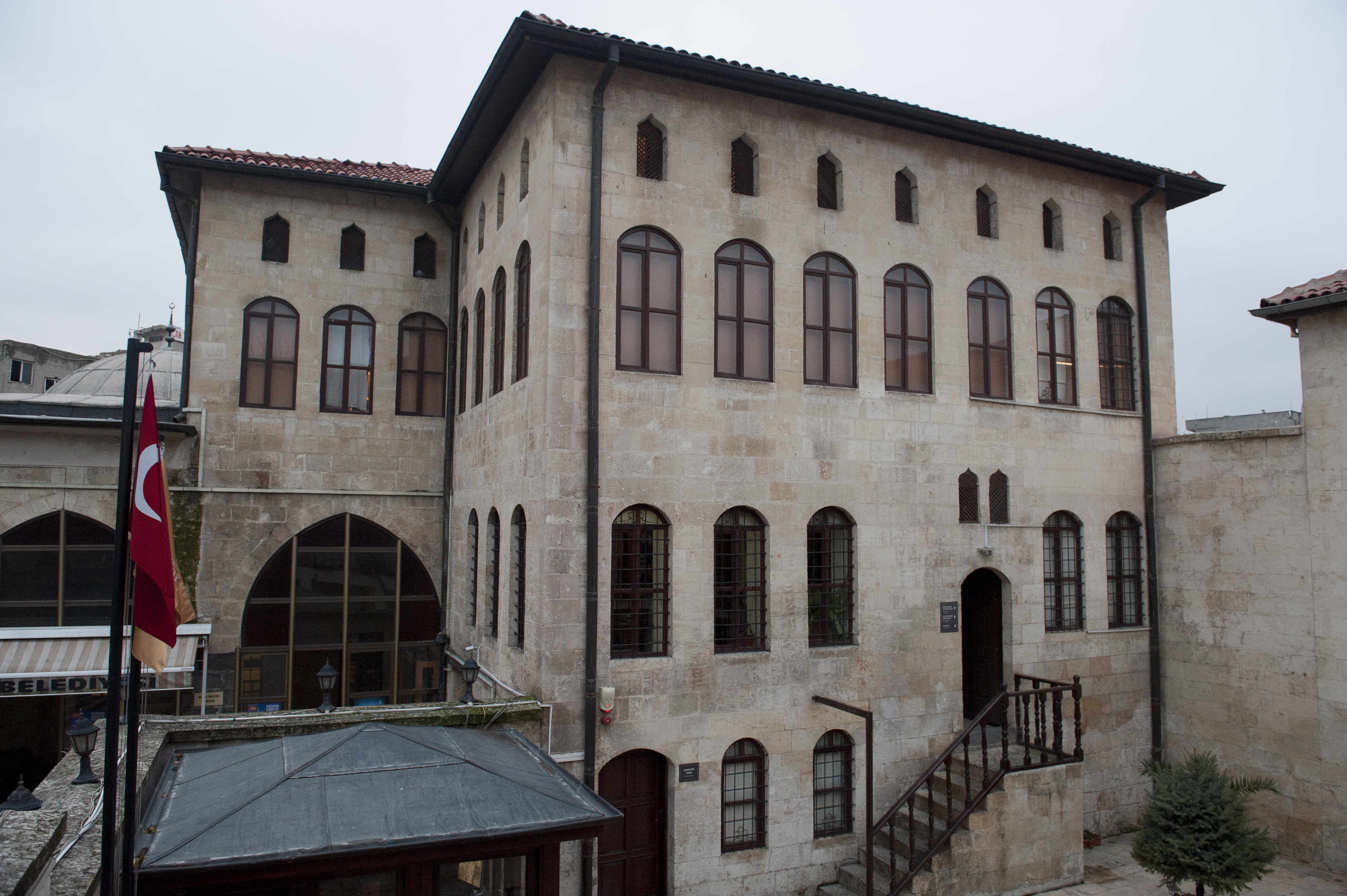 This is a museum about the Whirling Dervishes. It's housed in a fine mansion, and shows displays. It is part of a mosque's "külliye" (Islamic-Ottoman social complex centered around a mosque). It was built in the 17th century. The Mevlevi Lodge Monastery is entered via a courtyard which opens off the courtyard of the mosque. Elsewhere I found it probably belonged to the Tekke Mosque, The mosque was built in 1638 by a Turkmen landowner, Mustafa Aga.